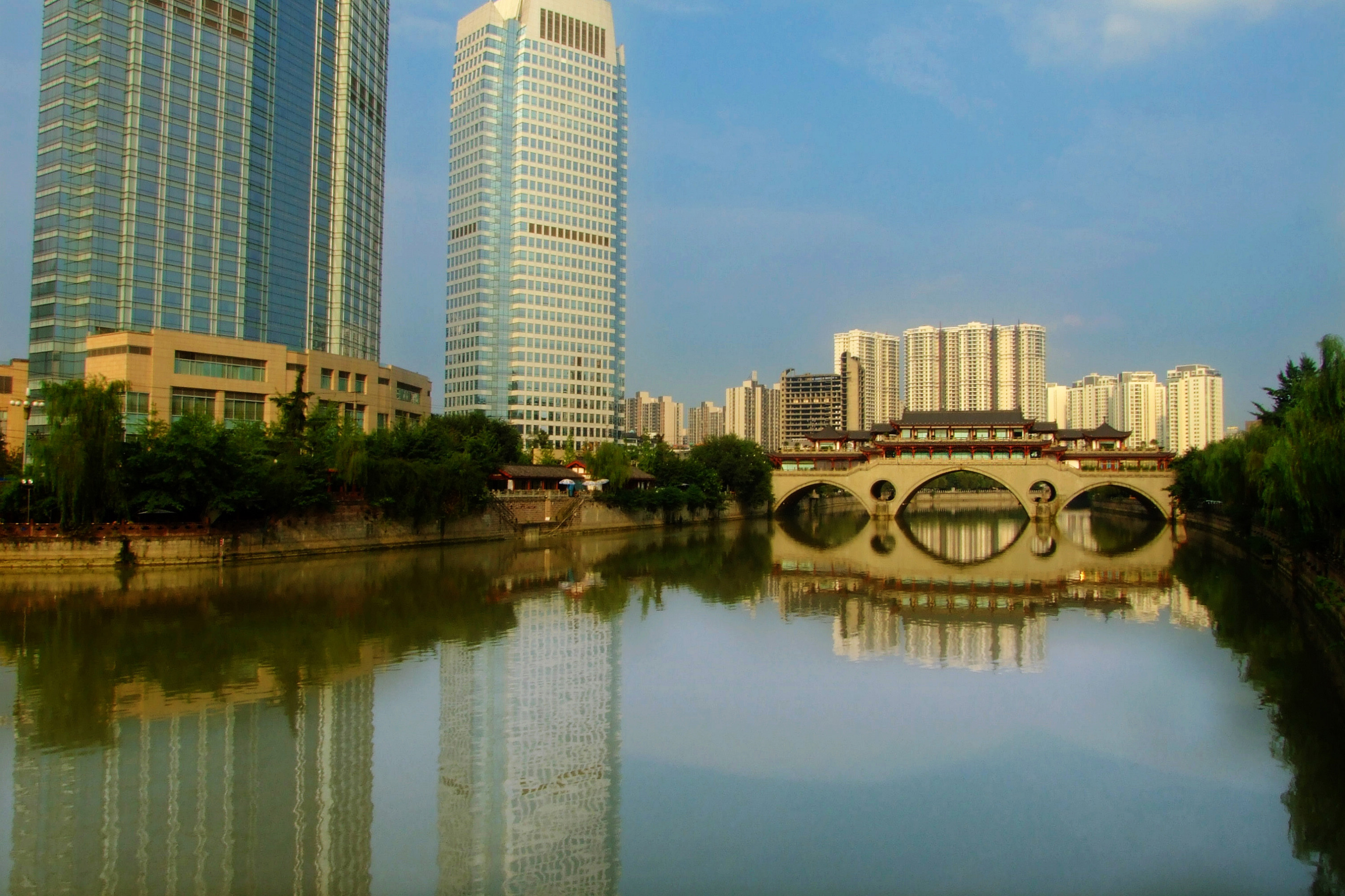 The Anshunlang bridge and Jin river in Chengdu,Sichuan province,China.2009